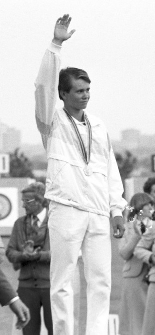 “Tomi Poikolainen (Finland) on the victory podium”. Tomi Poikolainen (Finland) on the victory podium. Dinamo archery range in Mytishi. Archery competition. XXII Summer Olympic Games held in Moscow on July 19 - August 3, 1980.